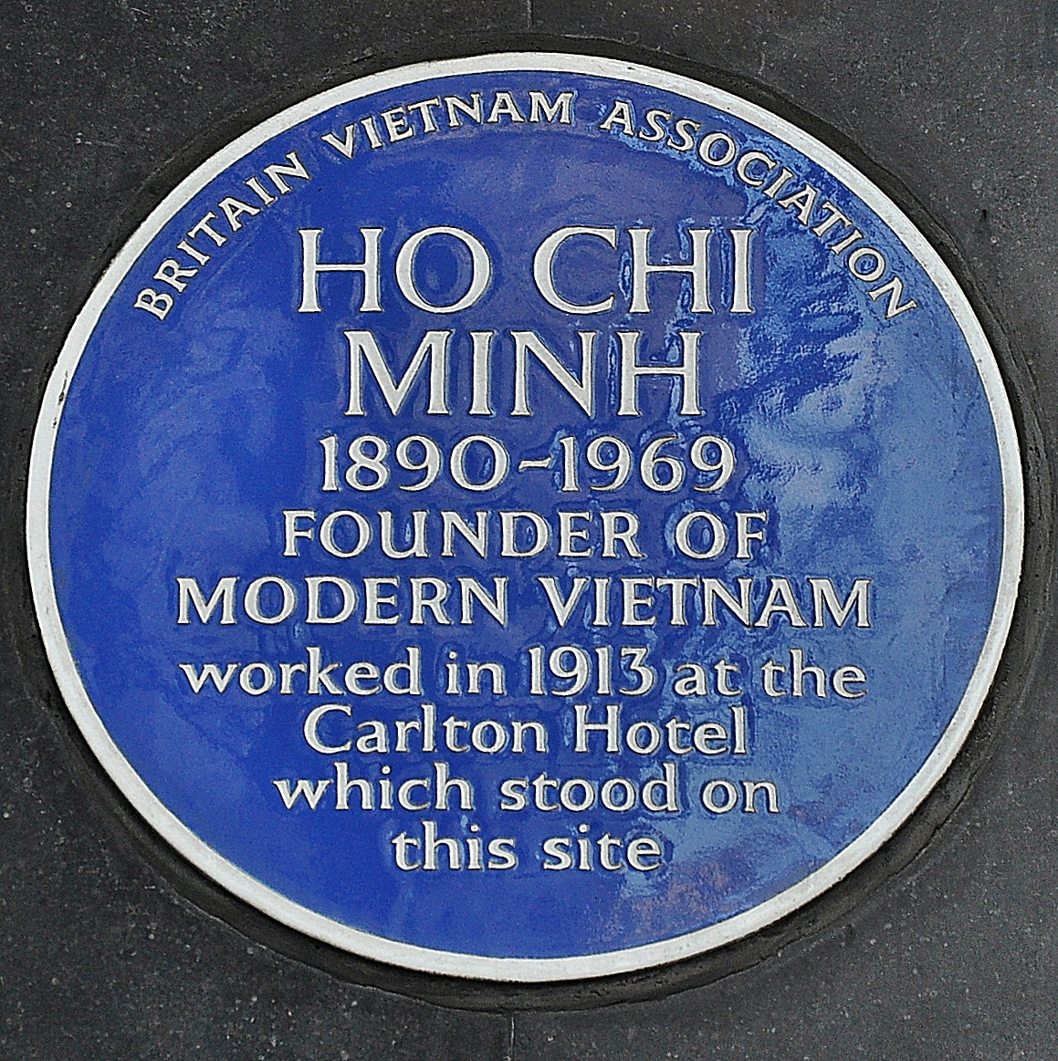 Blue plaque stating that Ho Chi Minh, Vietnamese Marxist-Leninist revolutionary leader, worked there in 1913 as a waiter.